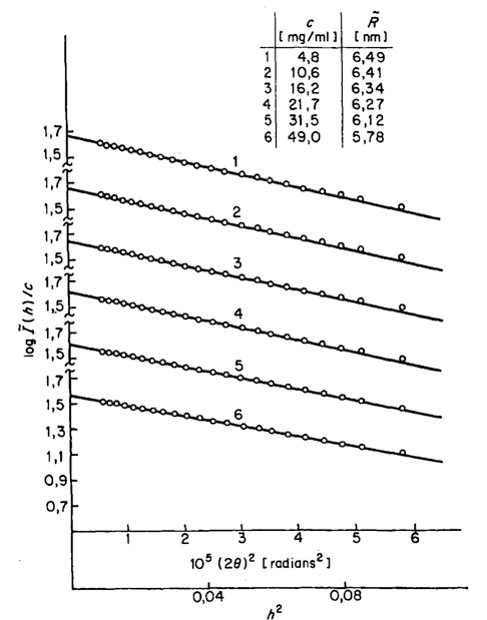 A guinier plot taken using small-angle X-ray scattering.The different curves correspond to different concentrations of the polymer. The slope corresponds to the radius of gyration. O. Glatter & O. Krateky ed., "Small Angle X-ray Scattering", Academic Press (1982).